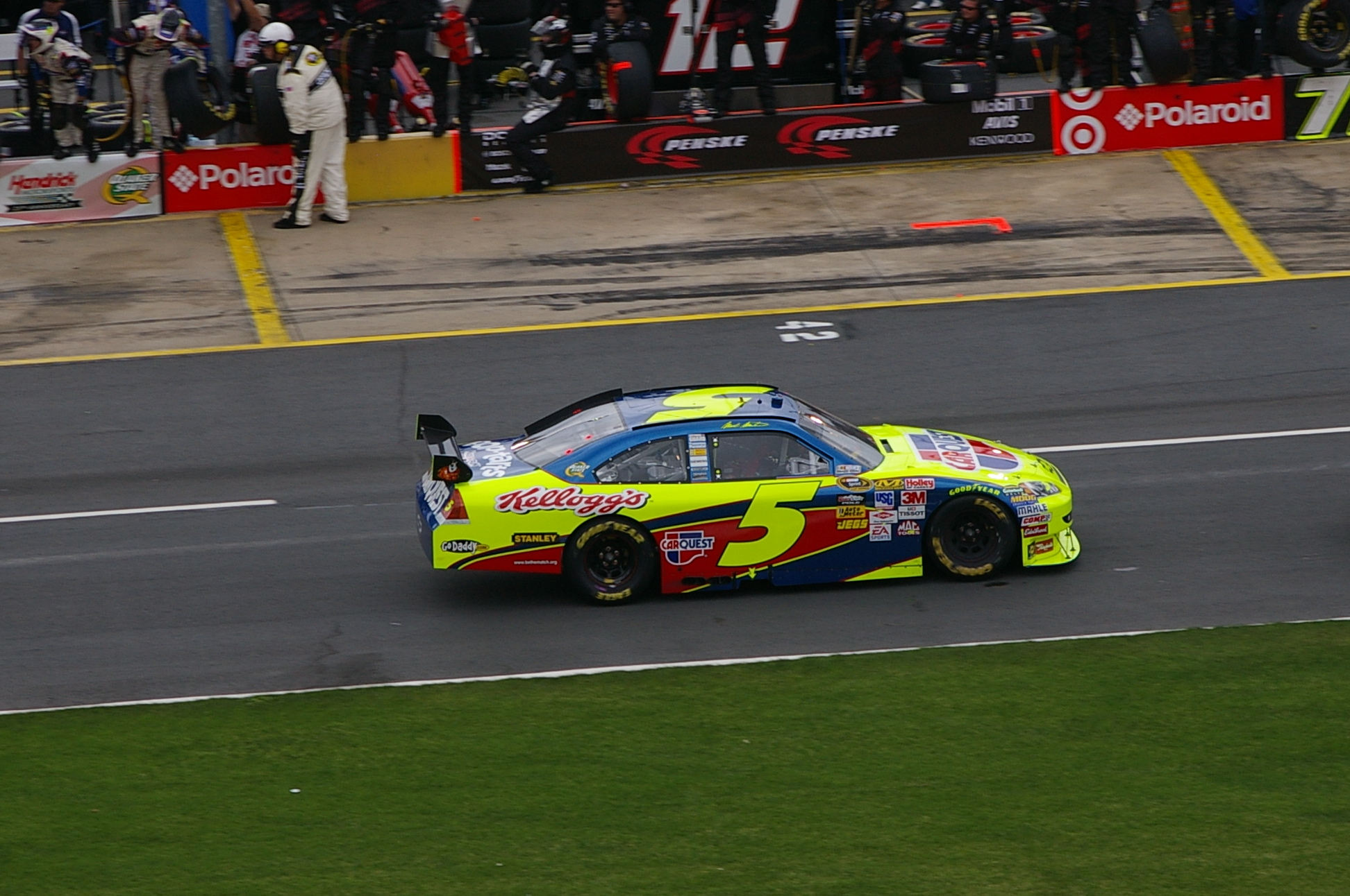 Mark Matin moving on pit road in the 2009 Coca-Cola 600.